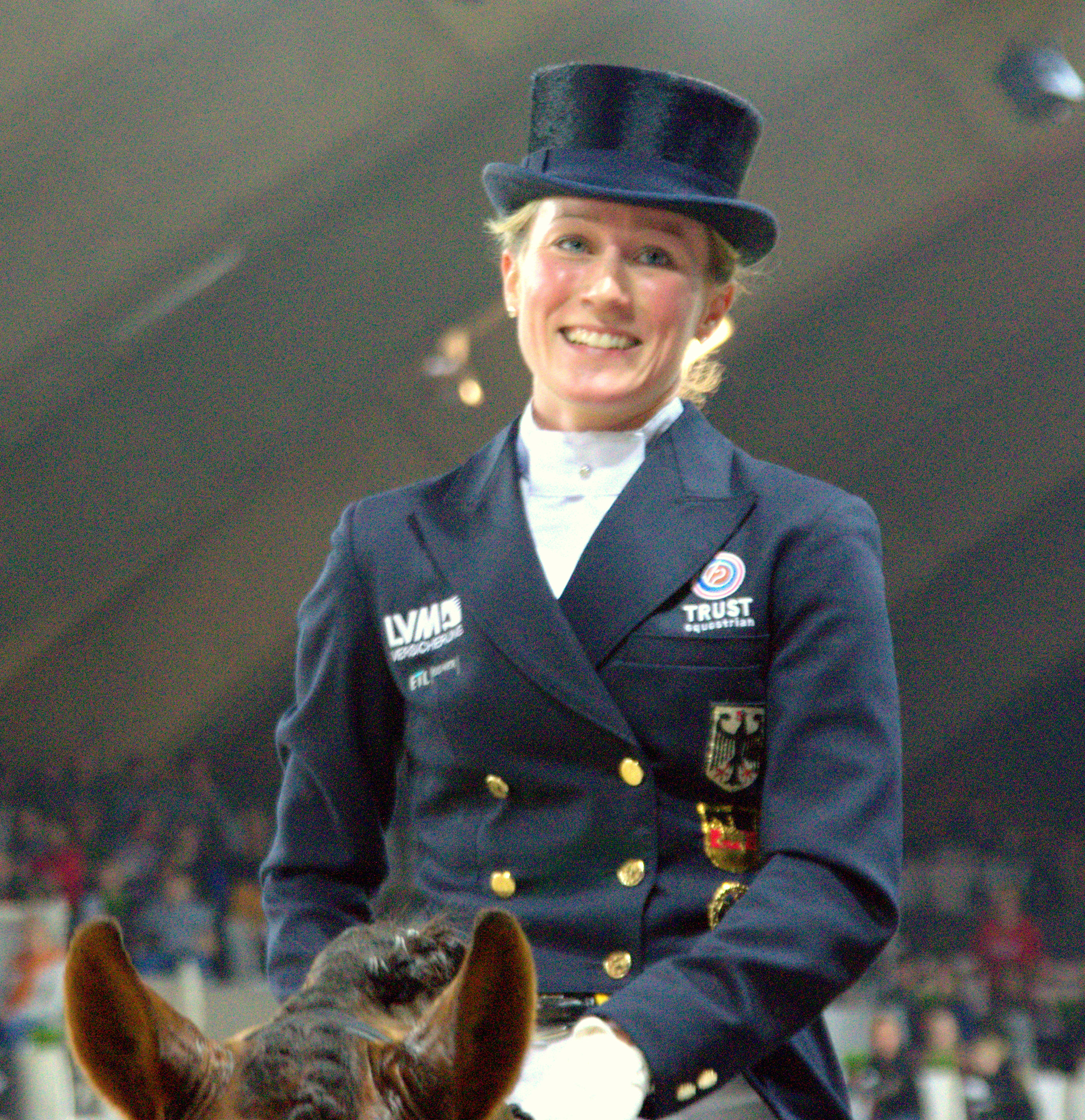 Helen Langehanenberg at the CDI 5* Mechelen 2012